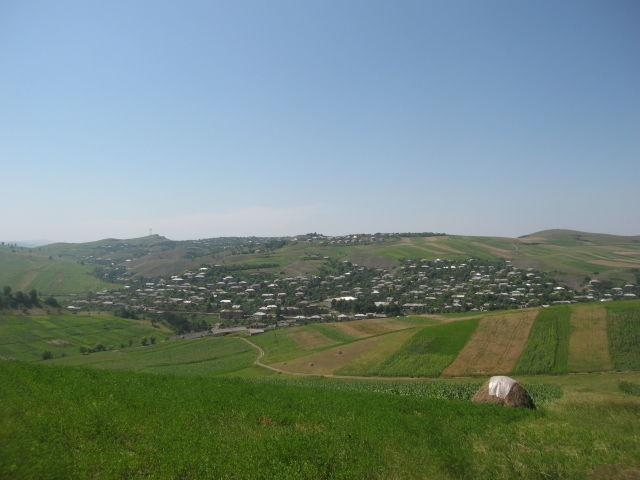 Tavush province of Armenia. Norashen village.